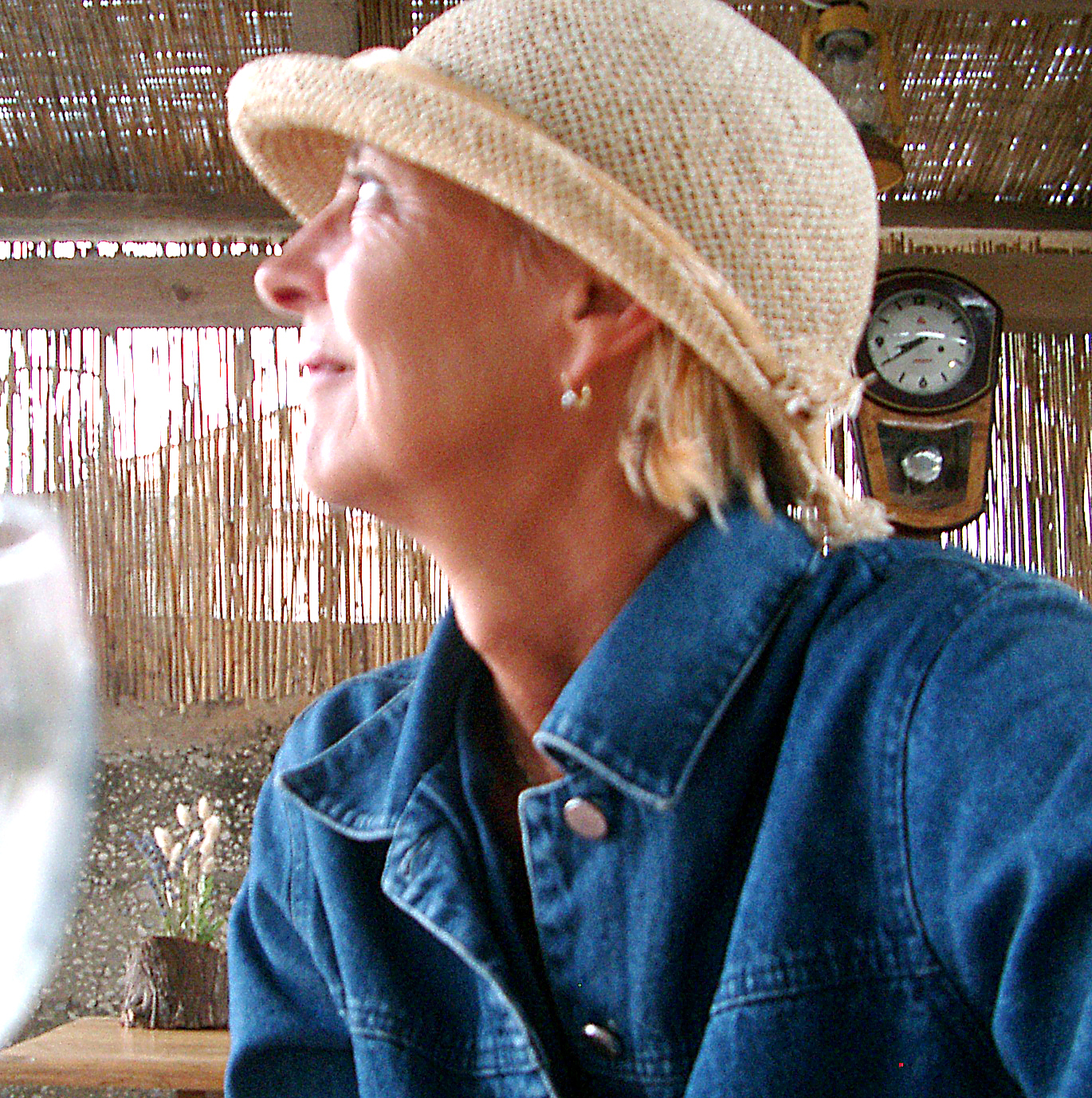 Käthe Kratz